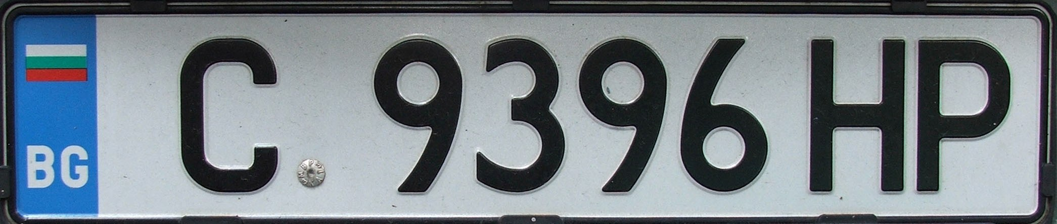 Bulgarian registration plate as seen in 2007.